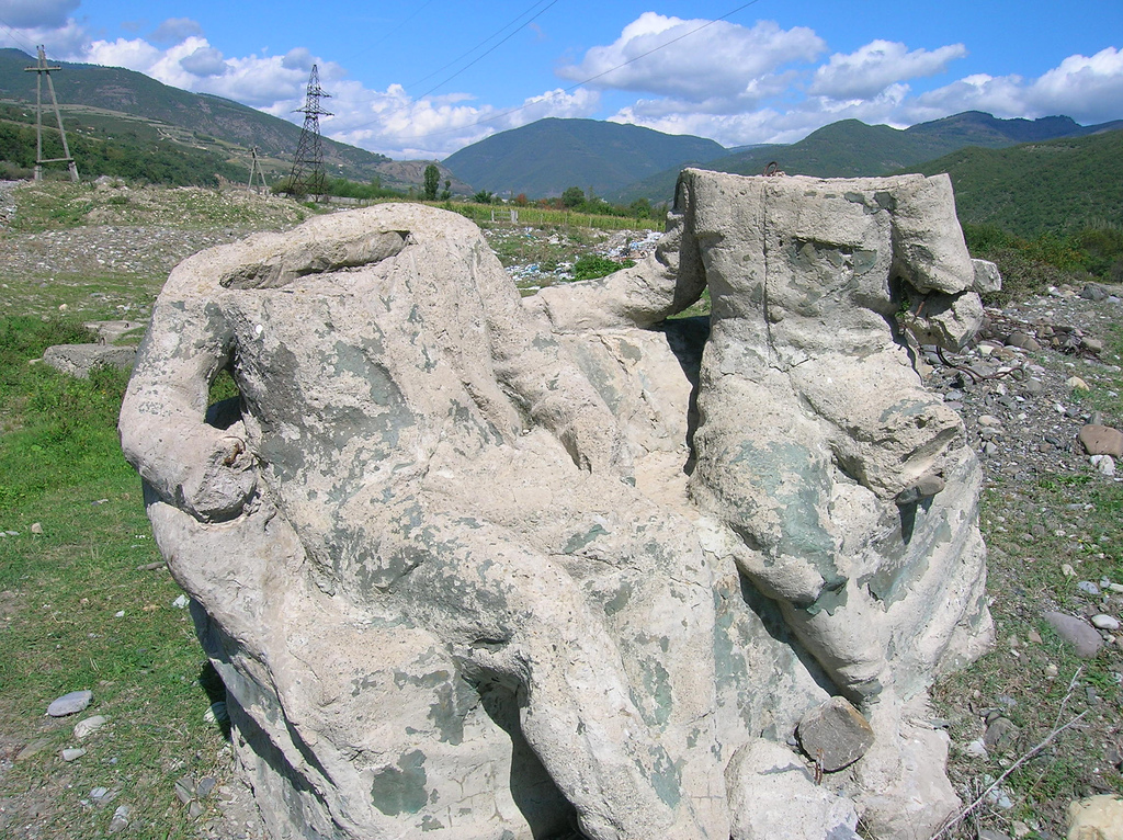 Headless ruins of Stalin and Lenin statue